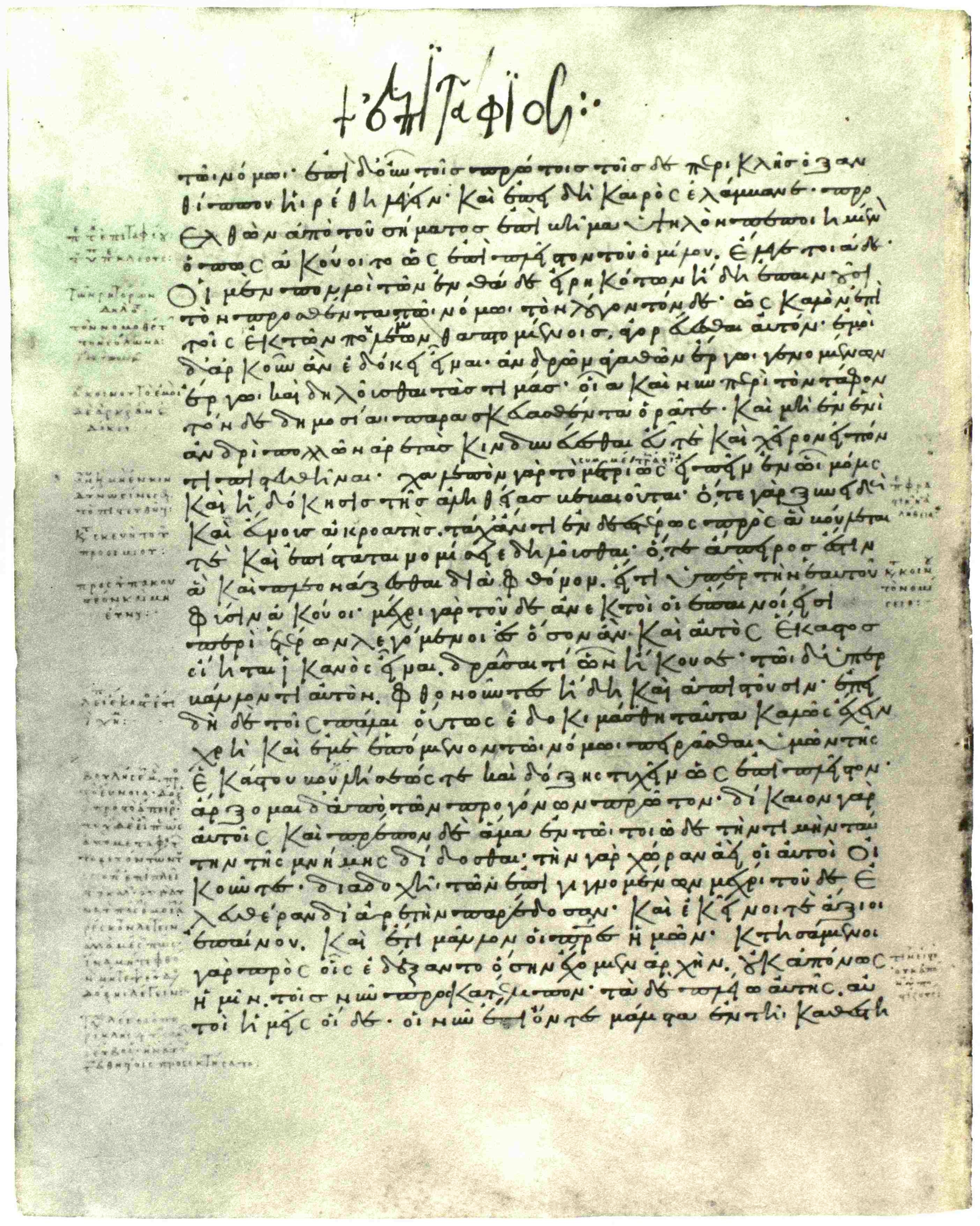 Pericles’ Funeral Oration in a medieval manuscript of the History of the Peloponnesian War: Munich, Bayerische Staatsbibliothek, Cod. graec. 430, fol. 53v.